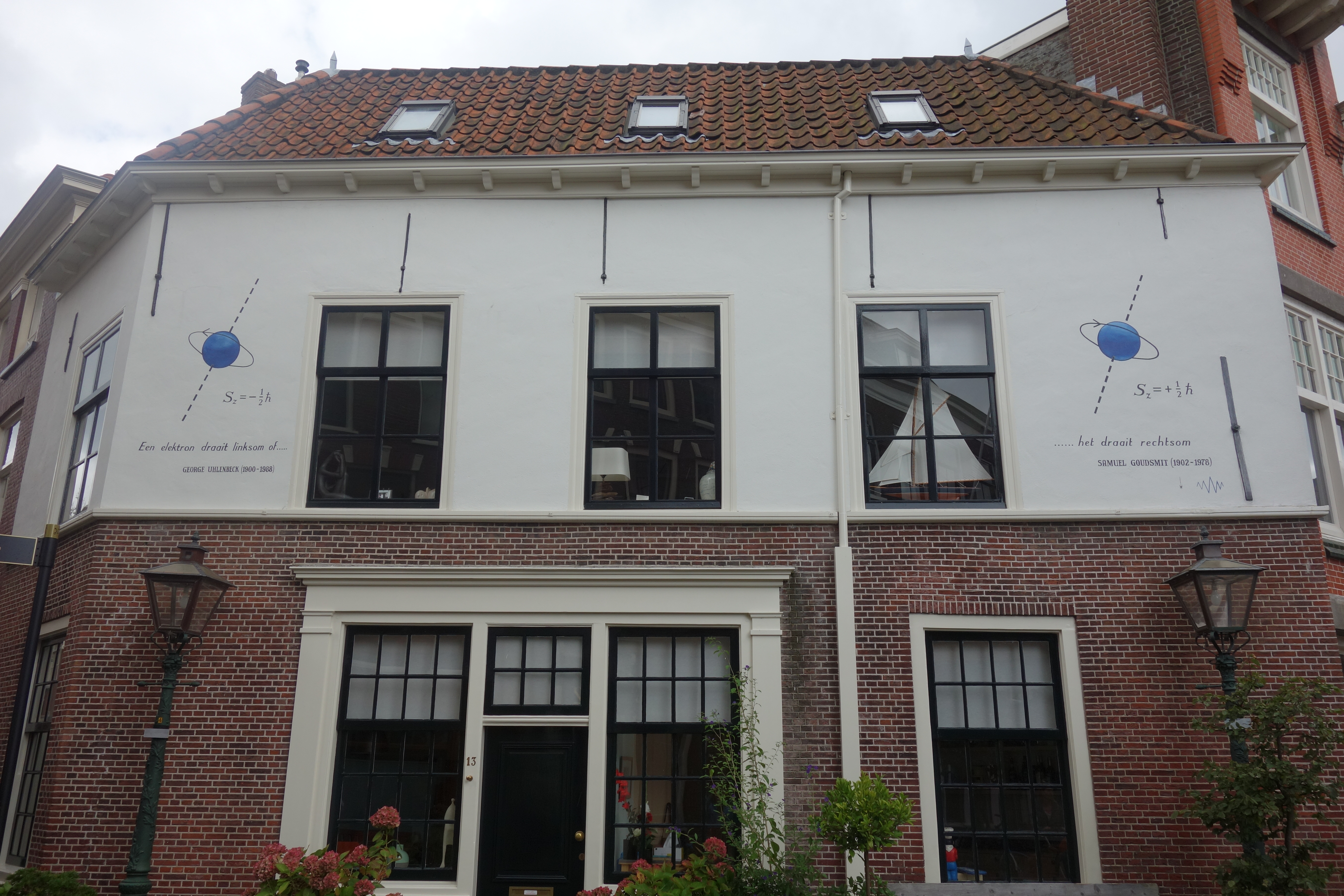 Electron spin by Samuel Goudsmit and George Uhlenbeck, visualized on a wall in Leiden. Gerecht 13, Leiden (the Netherlands)